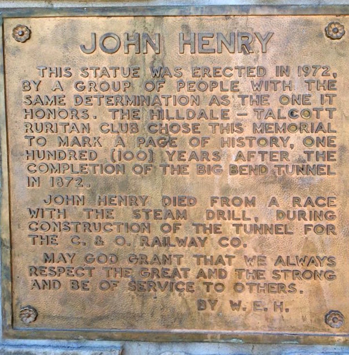 The ornamental plate celebrates the life of John Henry. "This statue was erected in 1972, by a group of people with the same determination as the one it honors. The Hilldale-Talcott Ruritan Club chose this memorial to mark a page in history, one hundred (100) years after the completion of the Big Bend Tunnel in 1872. John Henry died from a race with the steam drill, during construction of the tunnel for the C.&O. Railway Co. May God Grant that we always respect the great and the strong and be of service to others." W.E.H